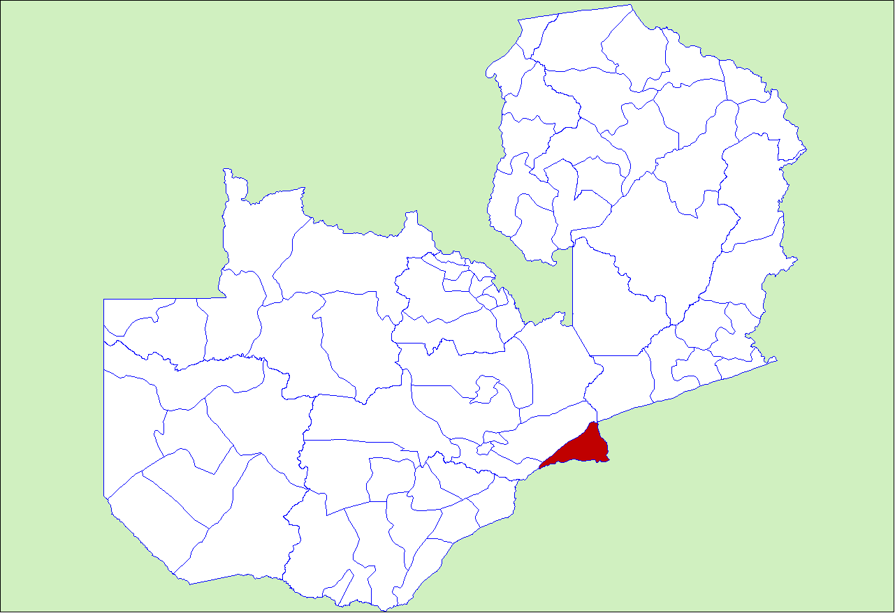 District locator in Zambia